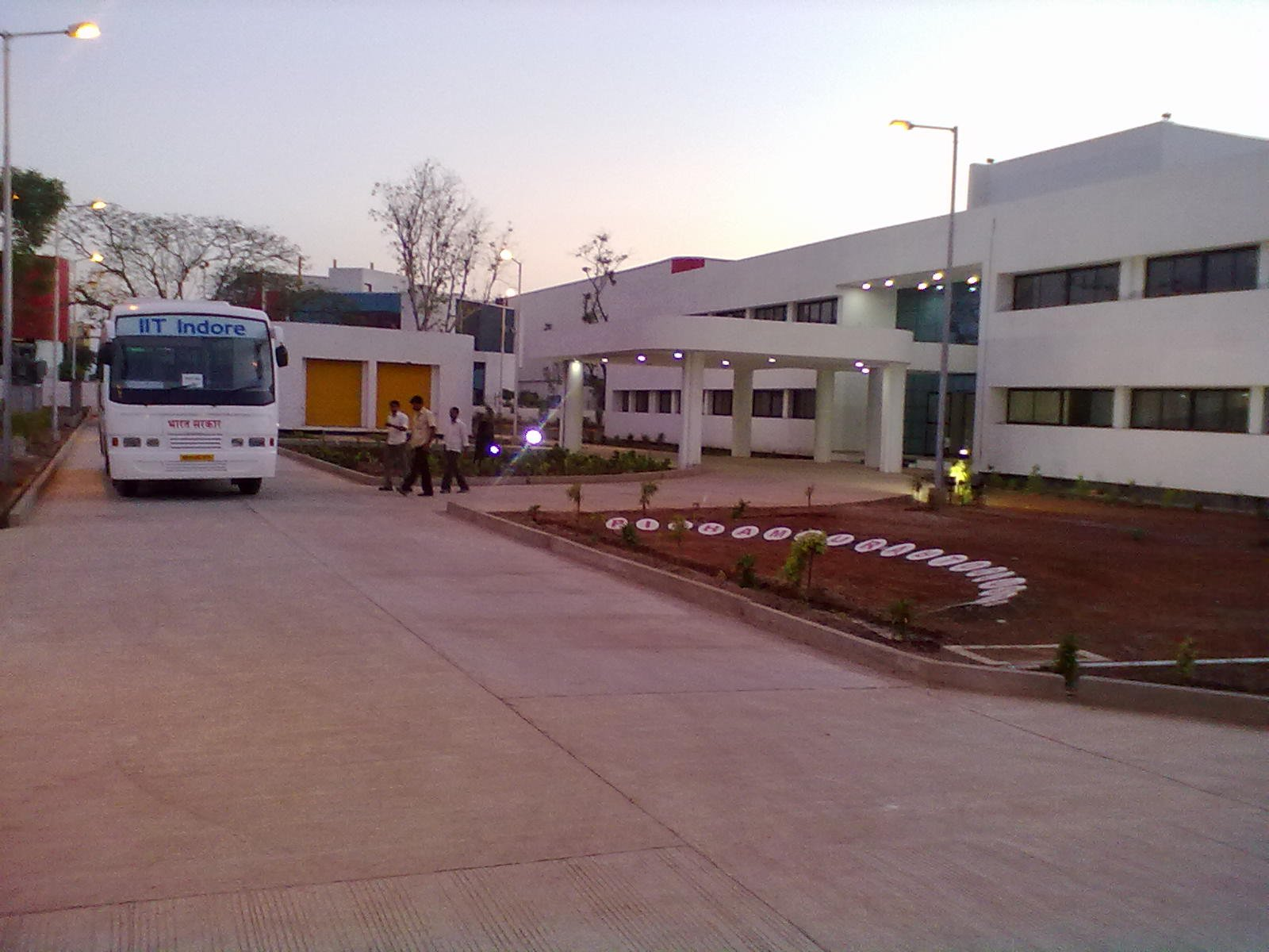 This is one of the transit campuses of IIT Indore